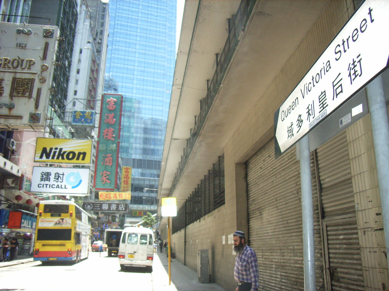 域多利皇后街, Queen Victoria Street, Central, Hong Kong By KennethTom